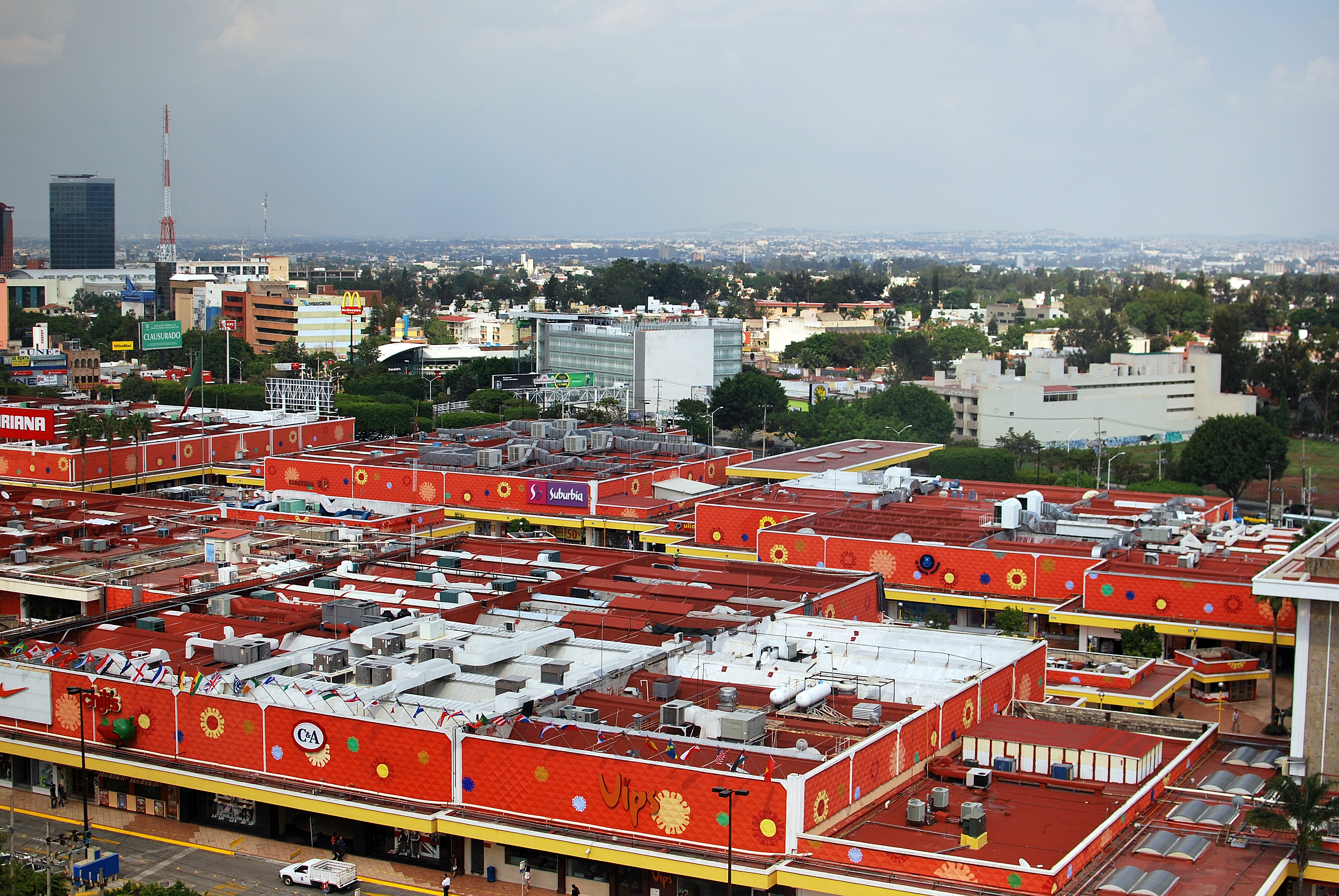 Plaza del Sol shopping mall in Zapopan, Guadalajara, Jalisco, Mexico, seen from Hotel Presidente InterContinental Guadalajara